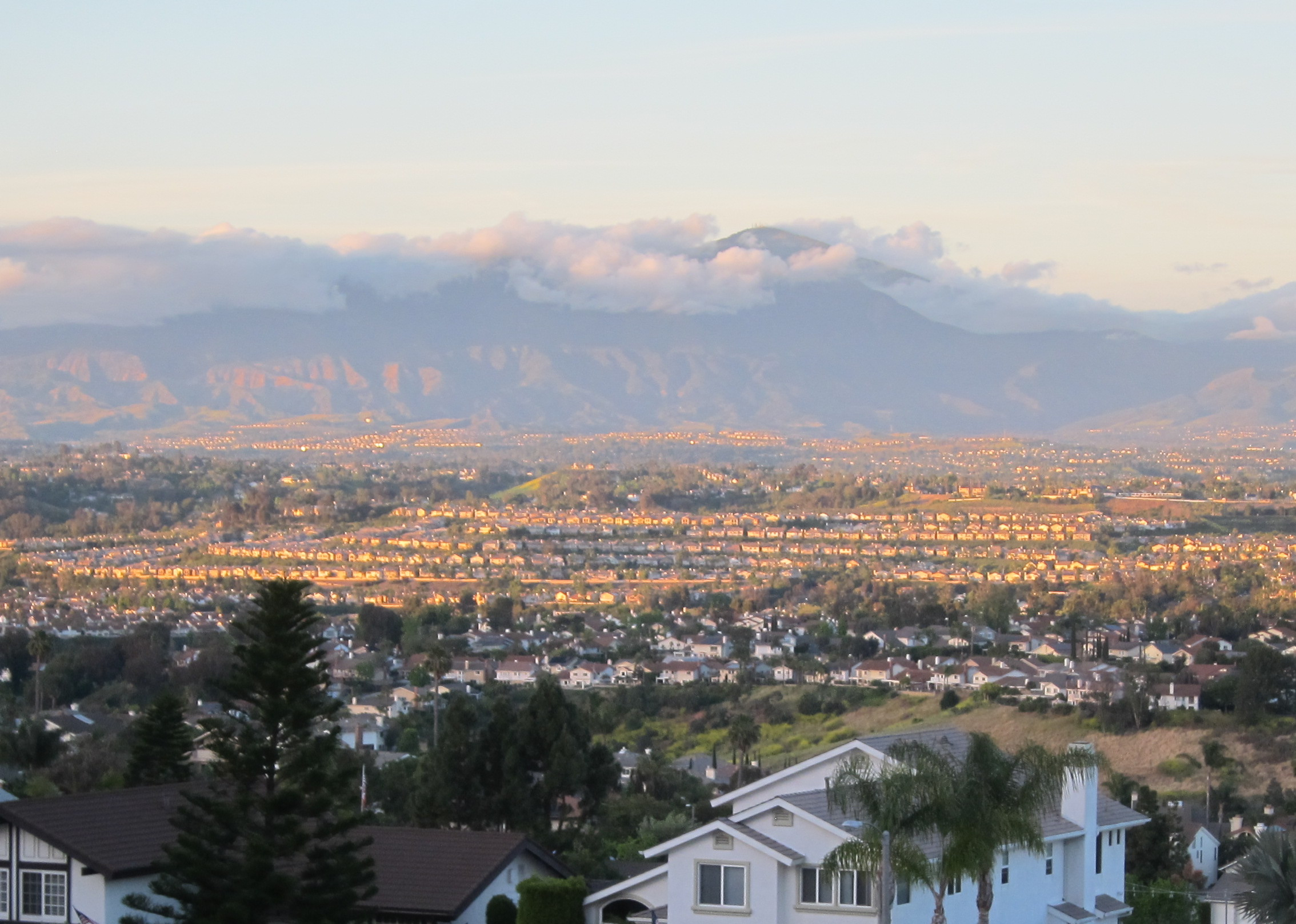 Crop of File:Laguna Niguel and Saddleback.JPG